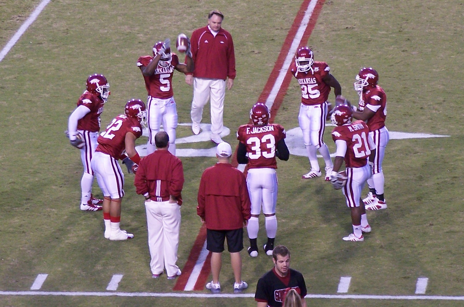 This is an image of the w:2007 Arkansas Razorbacks football team, more specifically the running backs, warming up before a game against South Carolina. Former coach Houston Nutt is observing.